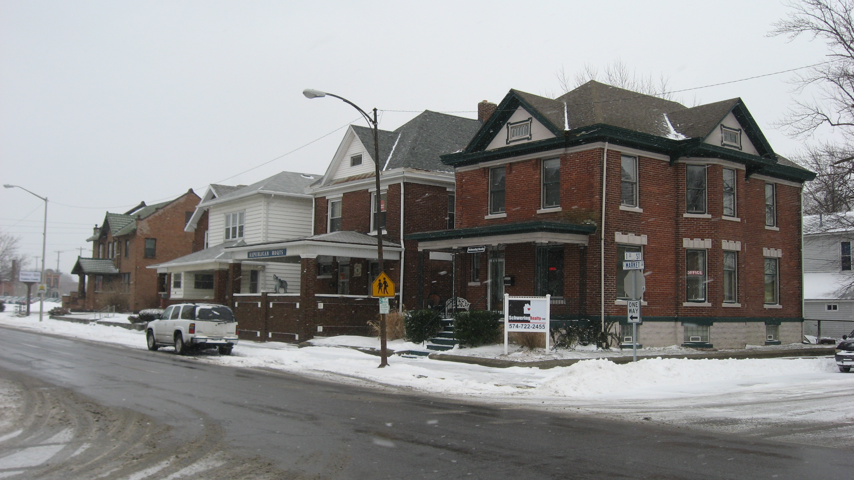 Houses on the southern side of the 100 block of E. Market Street in Logansport, Indiana, United States. From left to right, they are: 121 Market: 1925, Tudor Revival 115 Market (almost invisible): 1920, vernacular 111 Market: 1900, American Foursquare 107 Market: 1900, Queen Anne and American Foursquare 101 Market: 1890, Queen Anne and American Foursquare These houses are part of the Point Historic District, a historic district that is listed on the National Register of Historic Places.